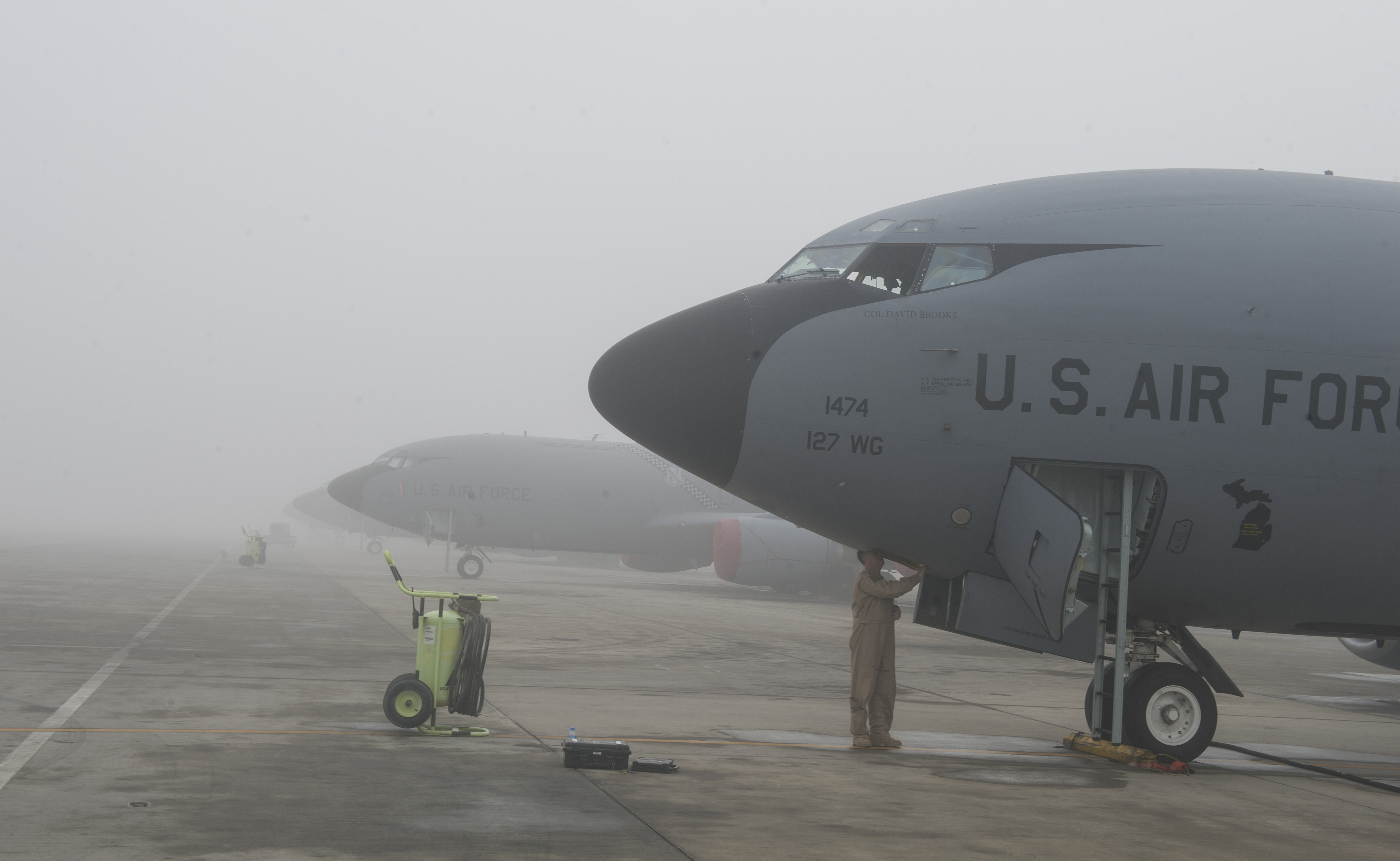 U.S. Air Force Lt. Col. Tate Whitener, a 340th Expeditionary Air Refueling Squadron KC-135 Stratotanker pilot, prepares for takeoff in support of an Operation Freedom’s Sentinel mission at Al Udeid Air Base, Qatar, Jan. 3, 2017. The 340th EARS is actively engaged in tactical refueling operations which extend kinetic and non-kinetic capabilities across Southwest Asia. (U.S. Air Force photo by Staff Sgt. Matthew B. Fredericks) Unit: U.S. Air Forces Central Command Public Affairs